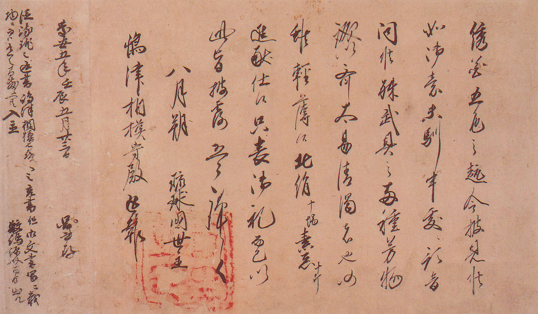 Ryukyukoku yononushi shojo. Letter of Ryukyukoku yononushi (King Sho Shin) to Shimazu Tadayoshi.